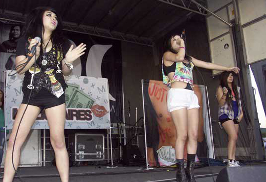 Millionaires @ Warped Tour